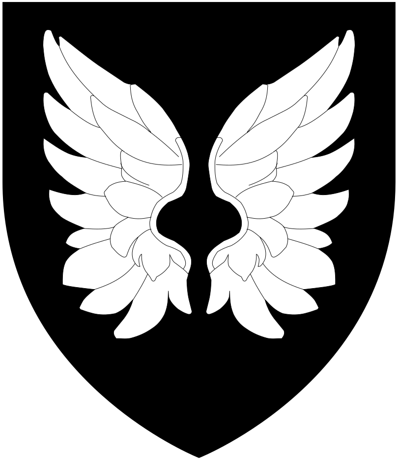 Arms of Ridgeway of Torre Abbey, Devon, Earl of Londonderry: Sable, a pair of wings conjoined and elevated argent. (Source: Vivian, Lt.Col. J.L., (Ed.) The Visitation of the County of Devon: Comprising the Heralds' Visitations of 1531, 1564 & 1620, Exeter, 1895, p.659)